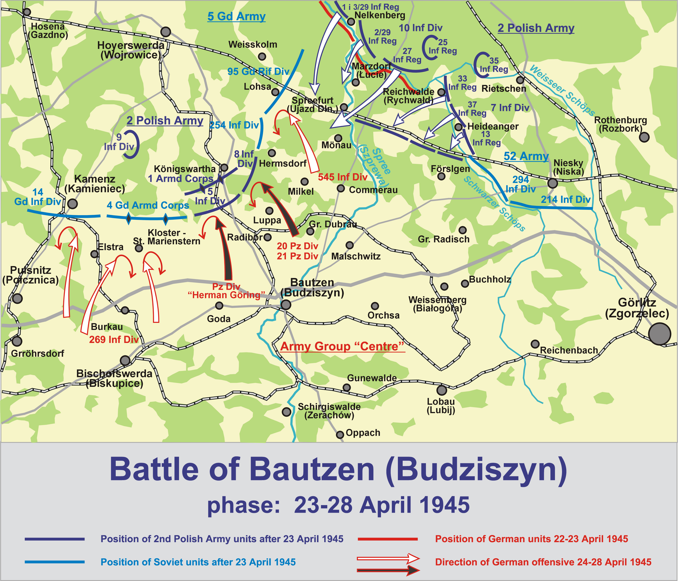 Map of the Battle of Bautzen, phase of 21-22 April 1945.